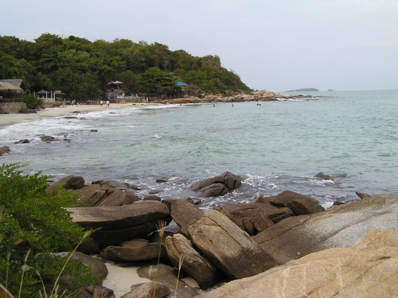 Author: Kereish, Place: Ko Samet, Thailand, Date: August 2005.